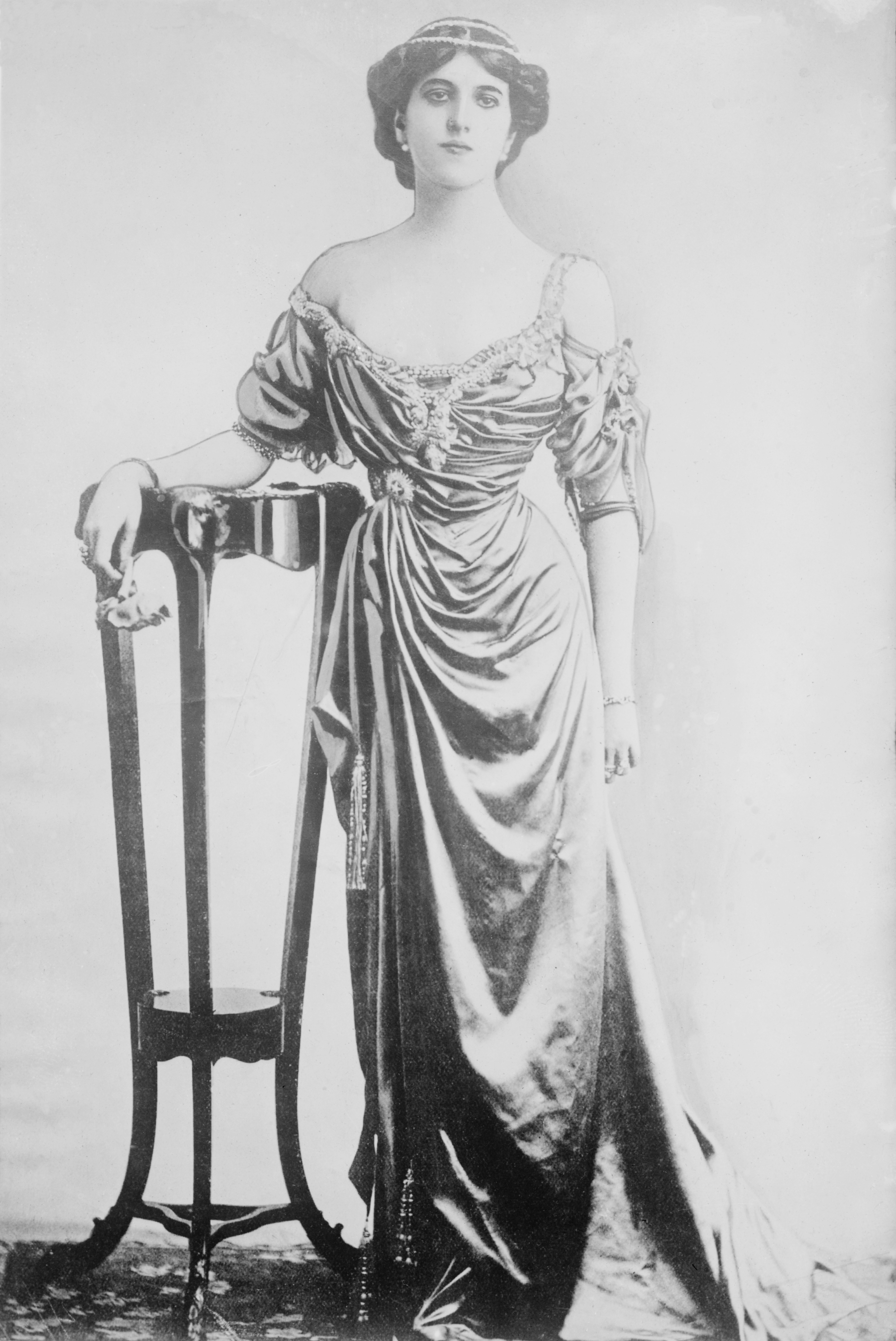 Anita Delgado Briones (1890-1962), "the Princess of Kapurthala." She was born in Spain and was modeling, dancing and singing .... Bain News Service,, publisher. Maharanee of Kapurthala between ca. 1910 and ca. 1915 1 negative : glass ; 5 x 7 in. or smaller. Notes: Title from unverified data provided by the Bain News Service on the negatives or caption cards. Forms part of: George Grantham Bain Collection (Library of Congress). Format: Glass negatives. Repository: Library of Congress, Prints and Photographs Division, Washington, D.C. 20540 USA, General information about the Bain Collection is available at Persistent URL: Call Number: LC-B2- 2910-2